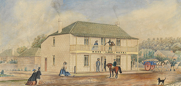 Rose Hotel, Bunbury, watercolour and pencil, 23.8 x 43.0 cm, by Thomas Browne